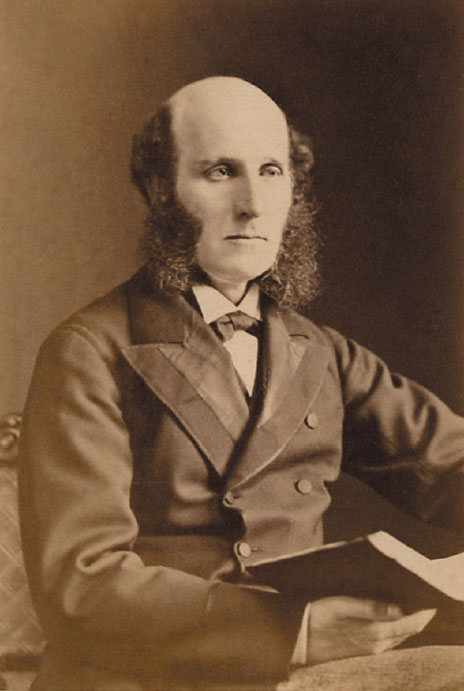 Ernest Noel (1831-1931), MP for Dumfries (5 February 1874- 8 July 1886)